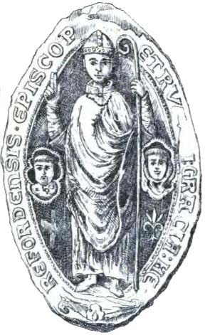 Reproduction of seal of Peter Aigueblanche, Bishop of Herford in 1240 to 1268. Released in the work of Francois Mugnier, "The Savoyards in England in the thirteenth century Peter of Aigueblanche Bishop of Hereford (1890)," Printing Menard, Chambery, 1890Reproduction of seal of Peter Aigueblanche, Bishop of Herford in 1240 to 1268. Released in the work of Francois Mugnier, "The Savoyards in England in the thirteenth century Peter of Aigueblanche Bishop of Hereford (1890)," Printing Menard, Chambery, 1890